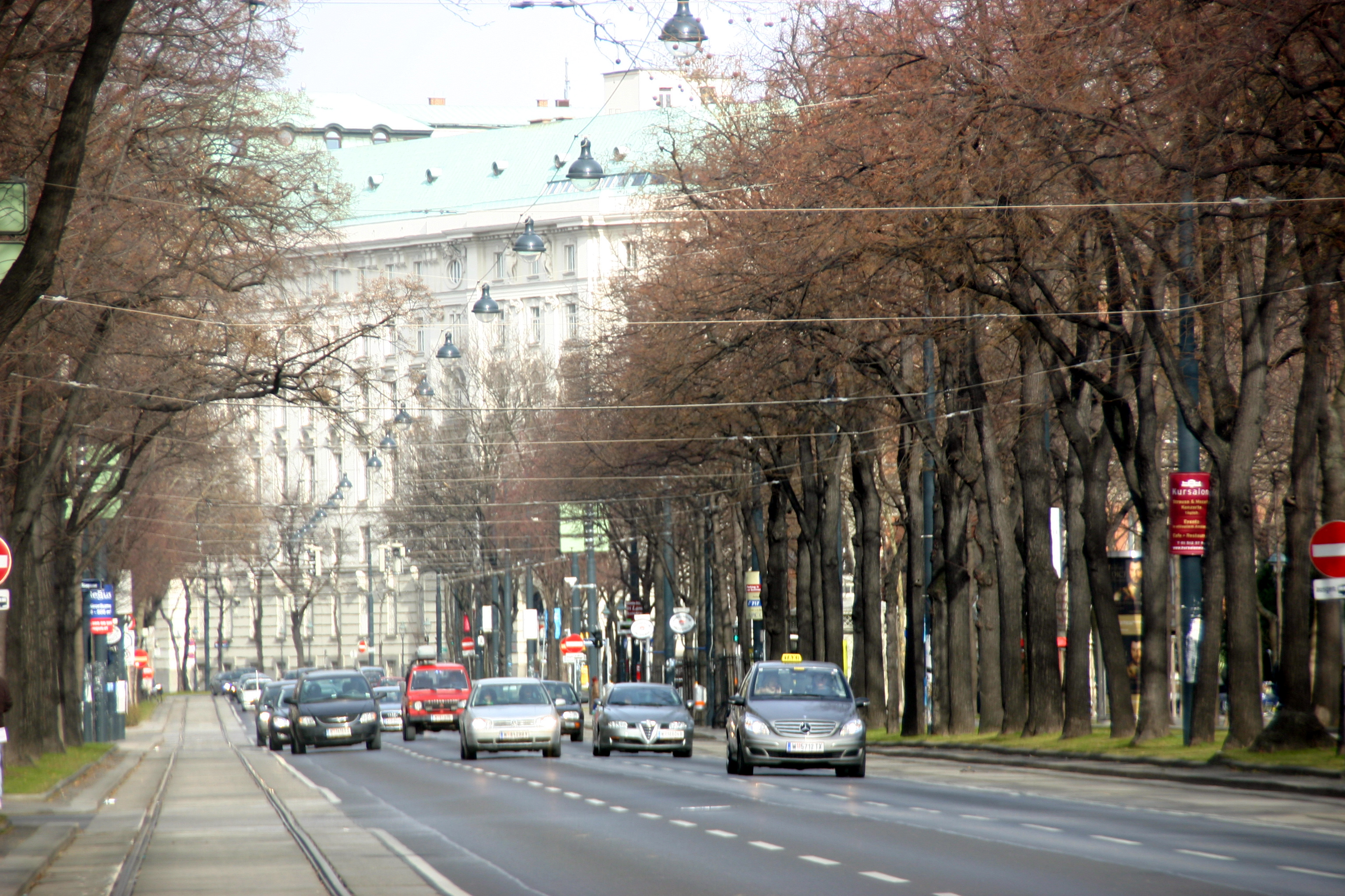 Stubenring, Vienna